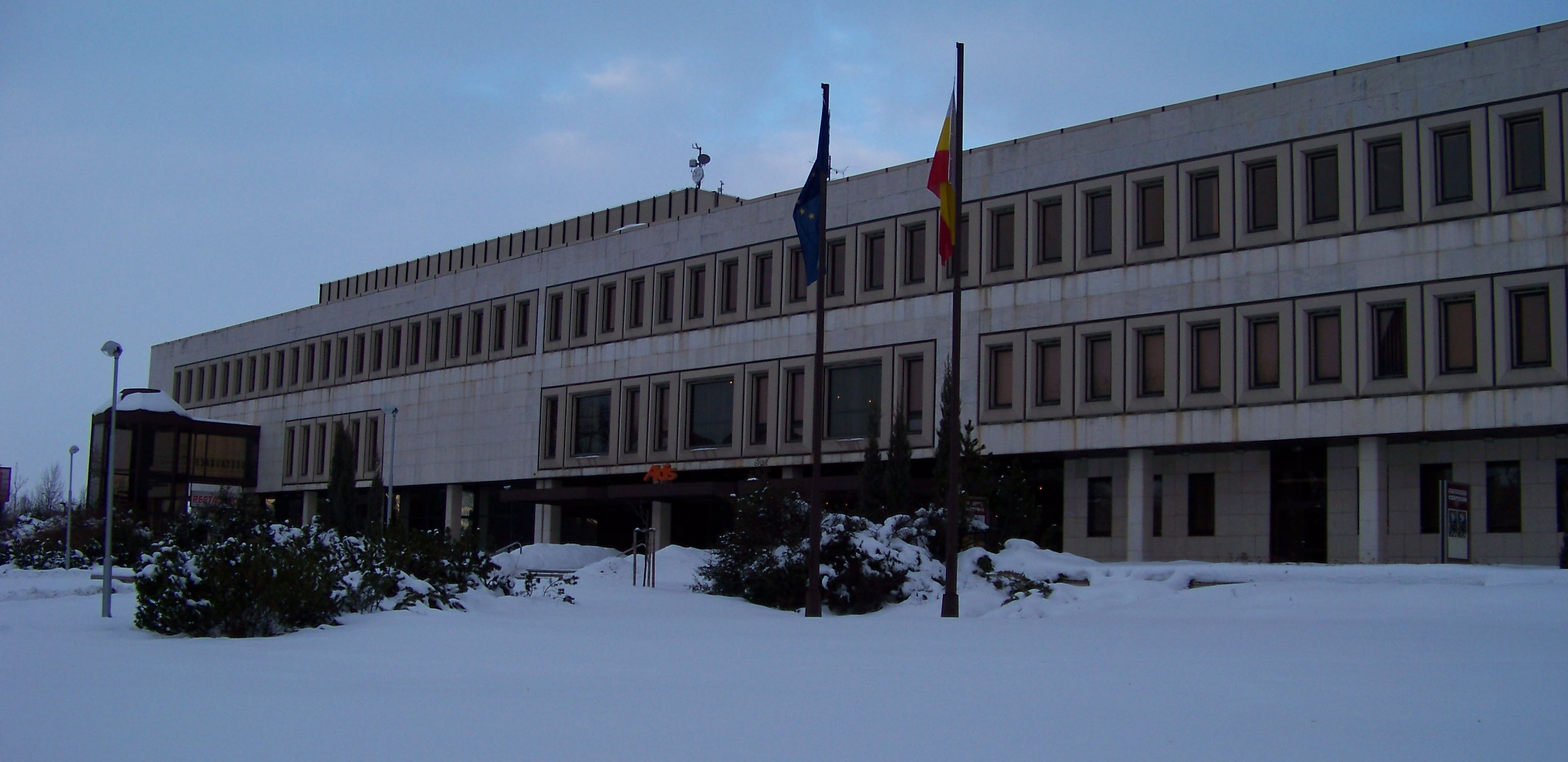 Hradec Králové-Věkoše, the Czech Republic. Eliška's Embankement, ALDIS centre.